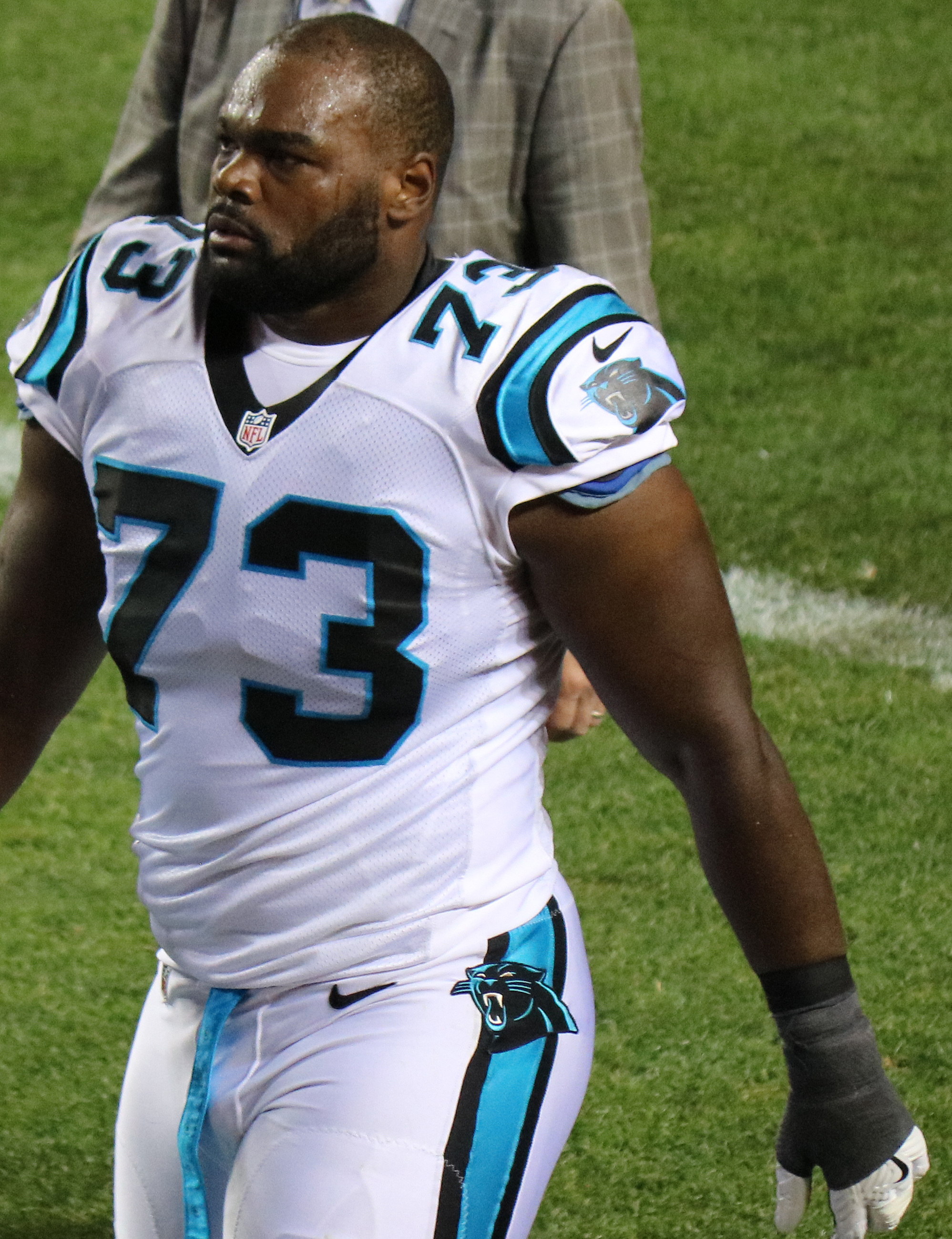 Michael Oher, a player in the National Football League.